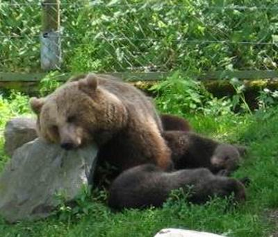 Brown bear at Skansen in Stockholm.